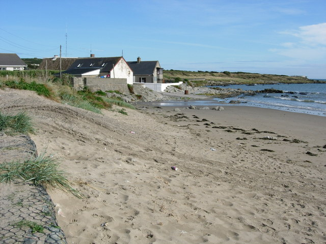 Ceann Chlochair Tra